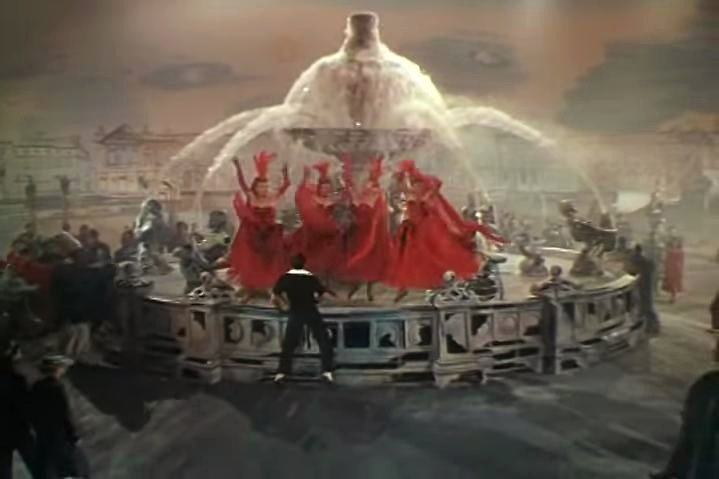 Gene Kelly in An American in Paris Ballet - trailer (cropped screenshot)